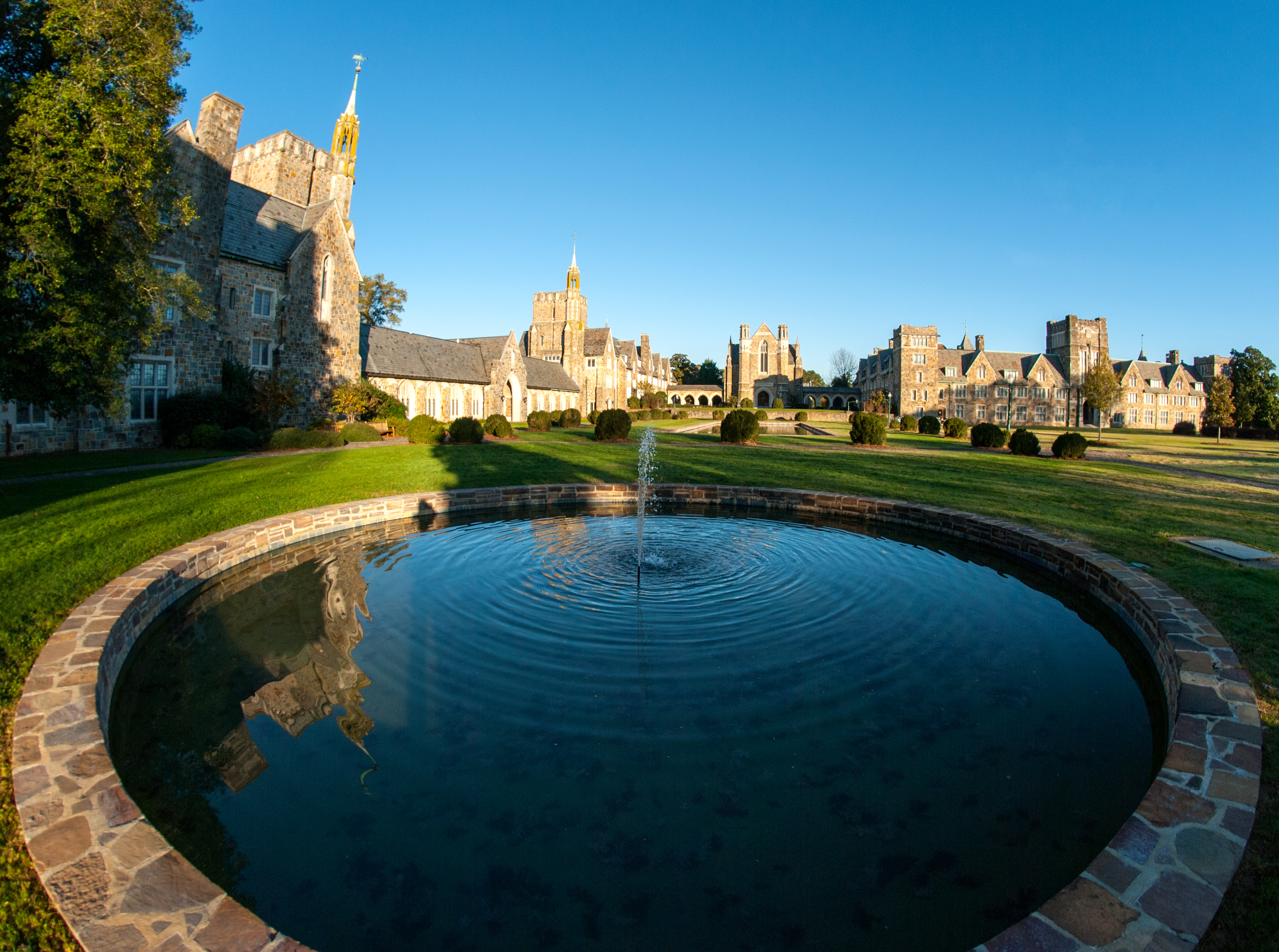 Morning, campus